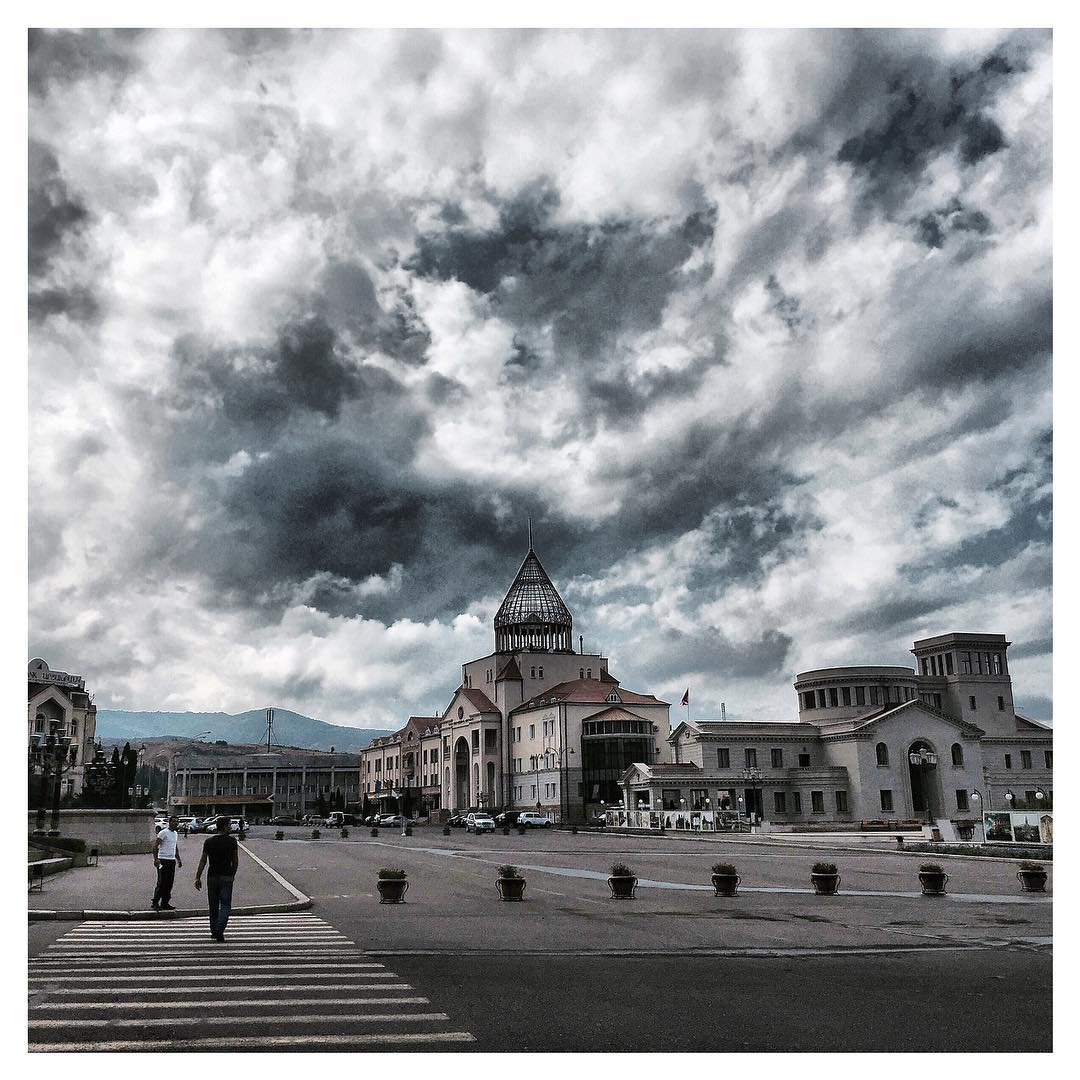 Renneissance square of Stepanakert